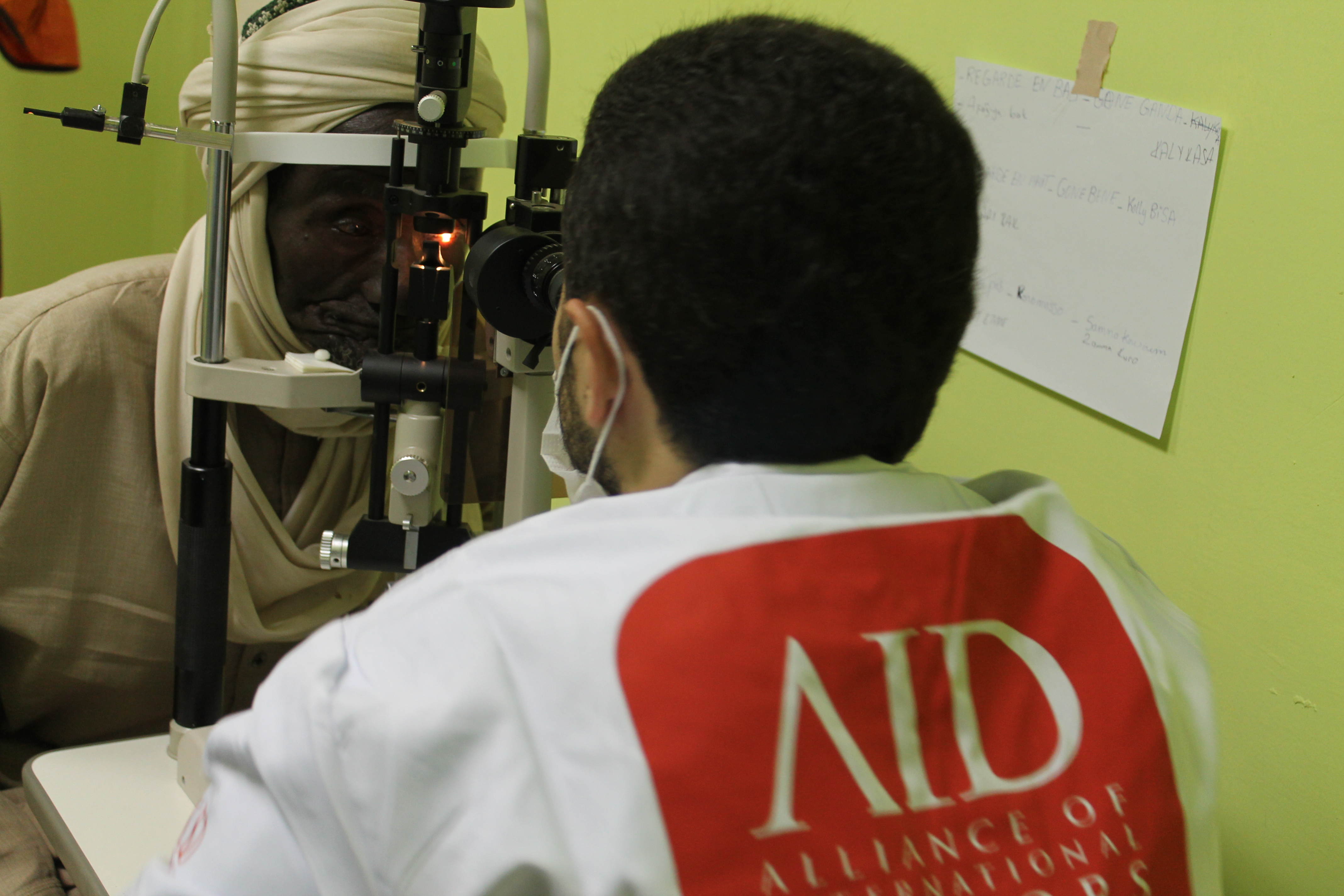 Nijer Katarak Projesi